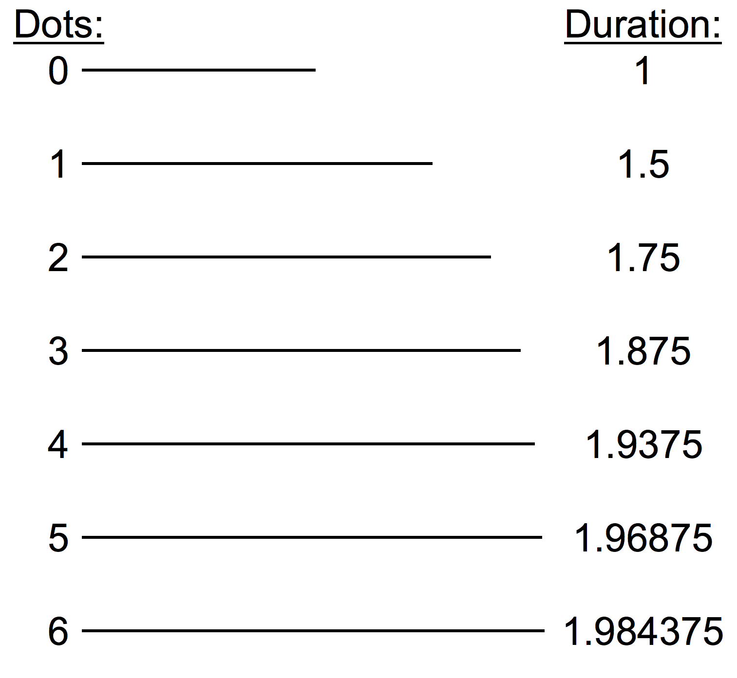 Dotted notes represented as lines, with lengths indicated.